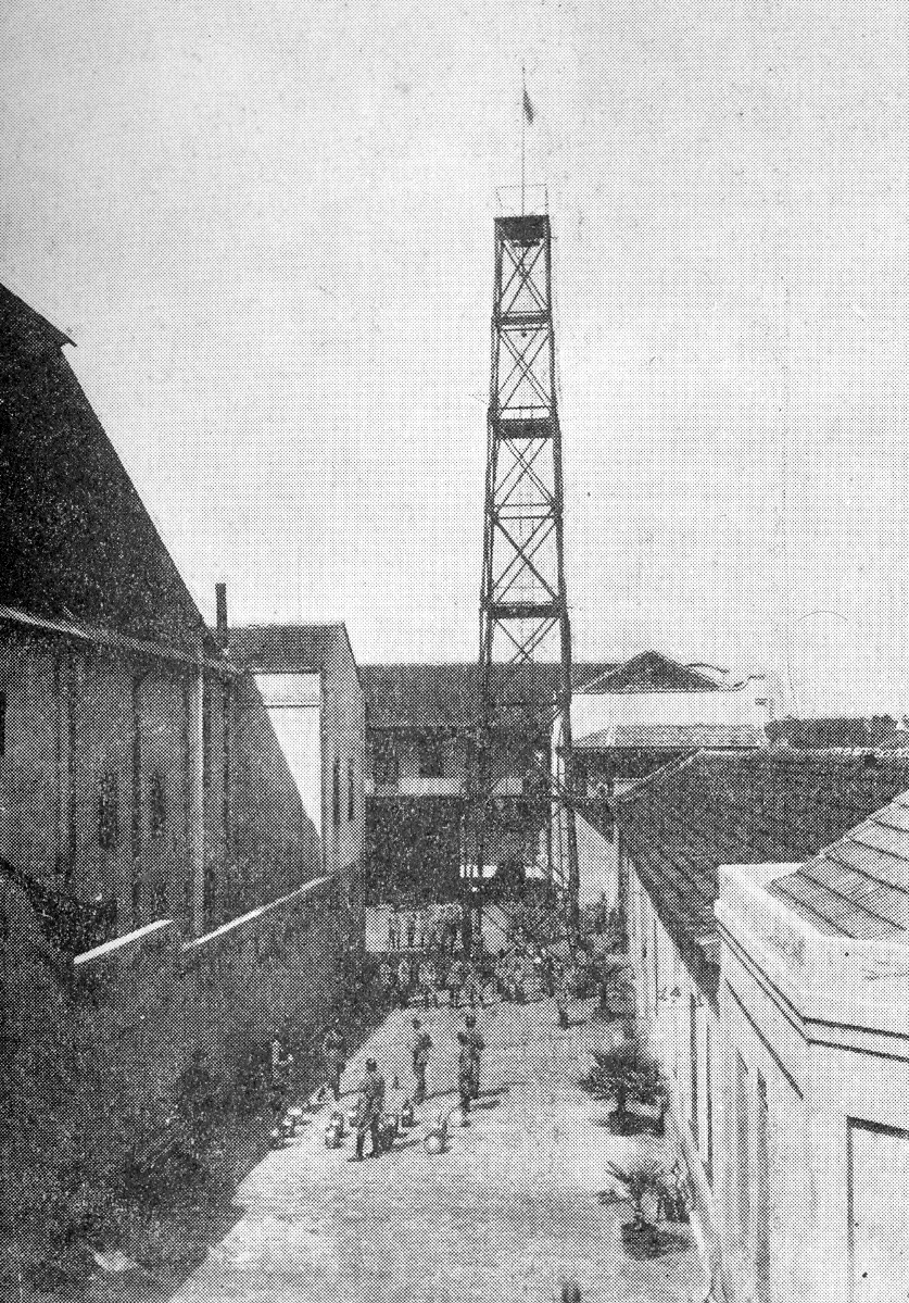 Tower of training of Firefighters - Parana - Brazil.